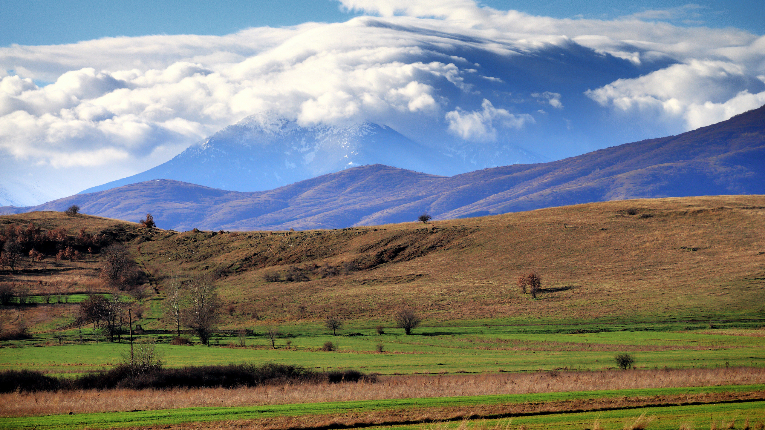 Pelagonia with the peak Pelister (2,601 m) in the background